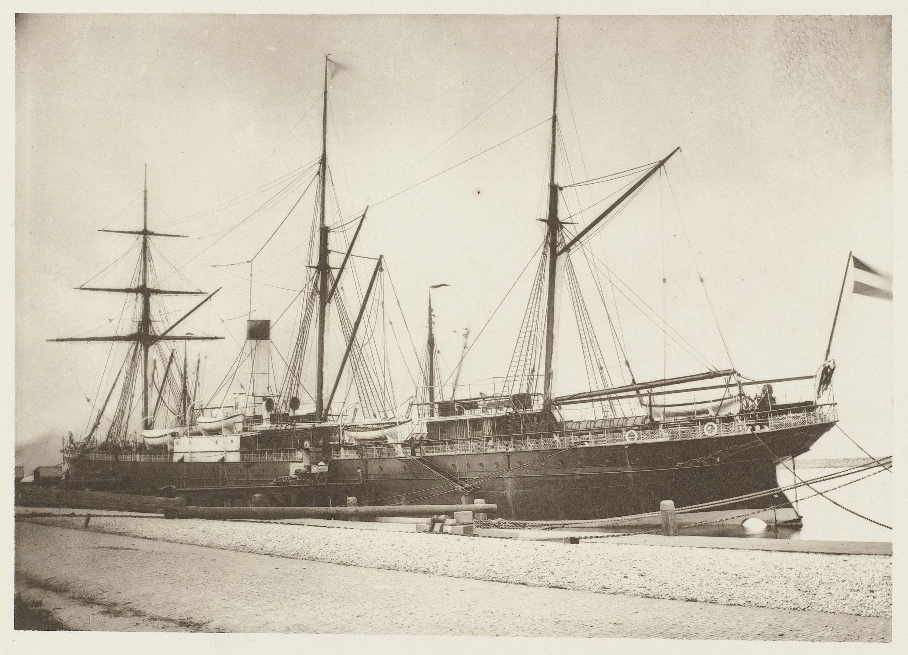 This is a new version of representing the correct orientation. Cf.